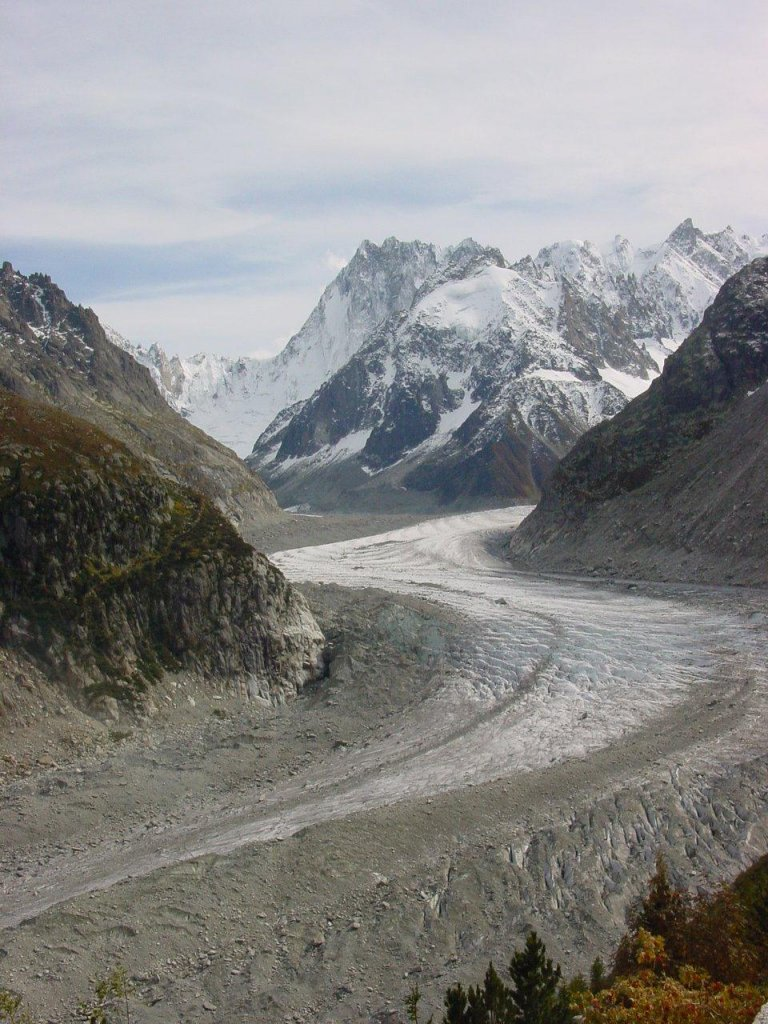 The Mer de Glace (Chamonix, France) in April 2002